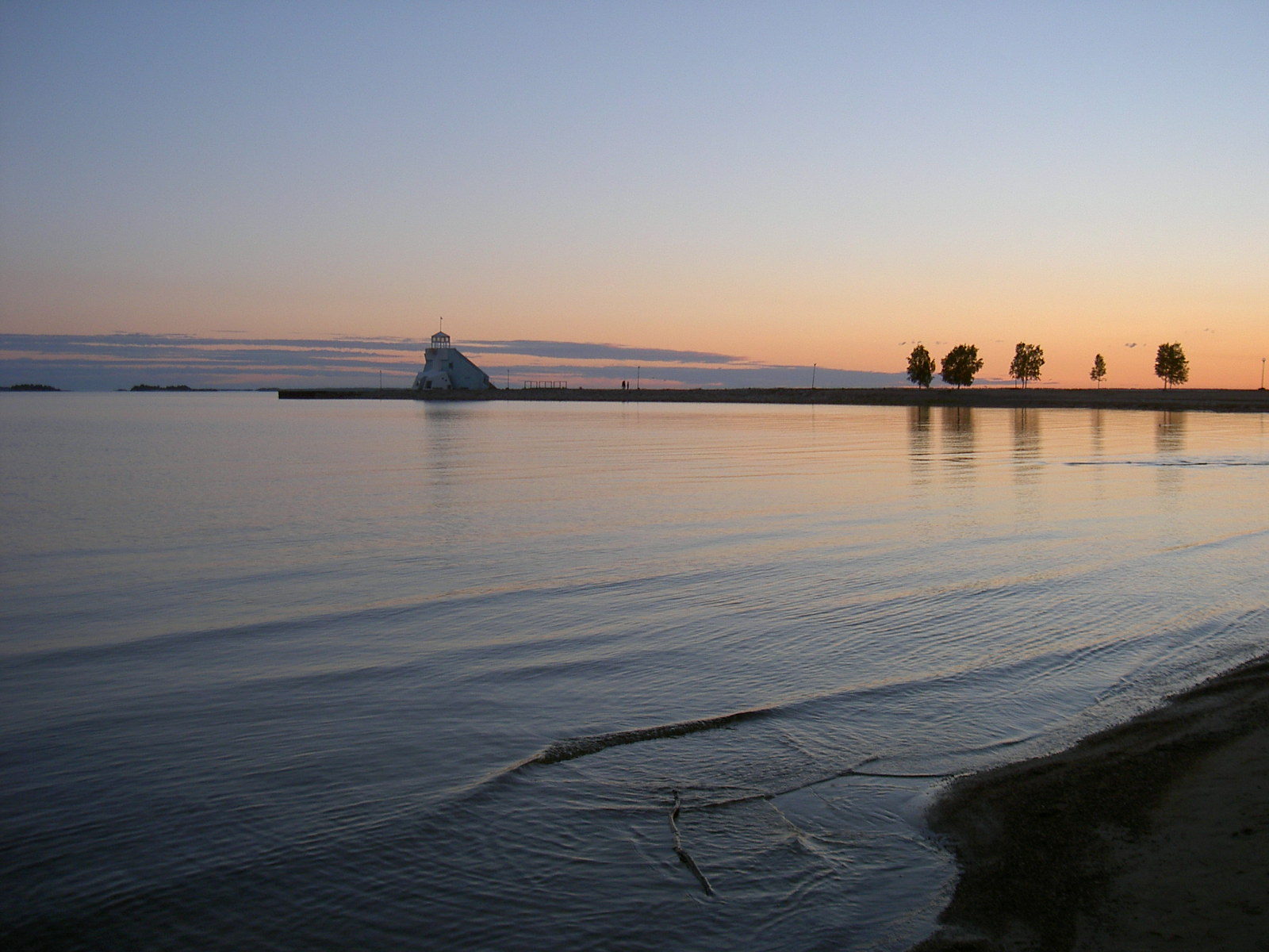 Nallikari Beach in Oulu, Finland.